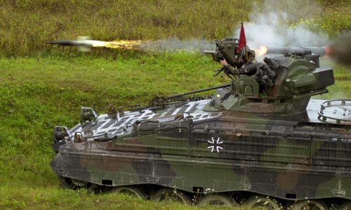 A Bundeswehr gunner aboard a 122nd Infantry, Company 5, Marder infantry fighting vehicle fires a MILAN wire-guided anti-tank missile. Notice the missile tube being ejected to the rear by the rocket motor.